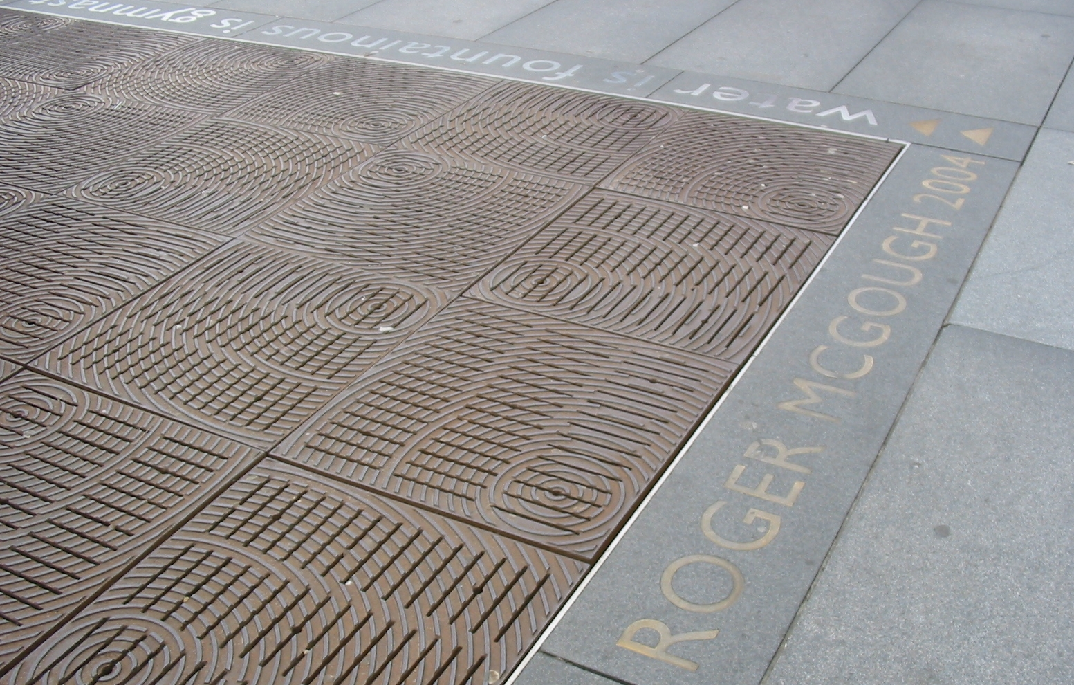 Liverpool